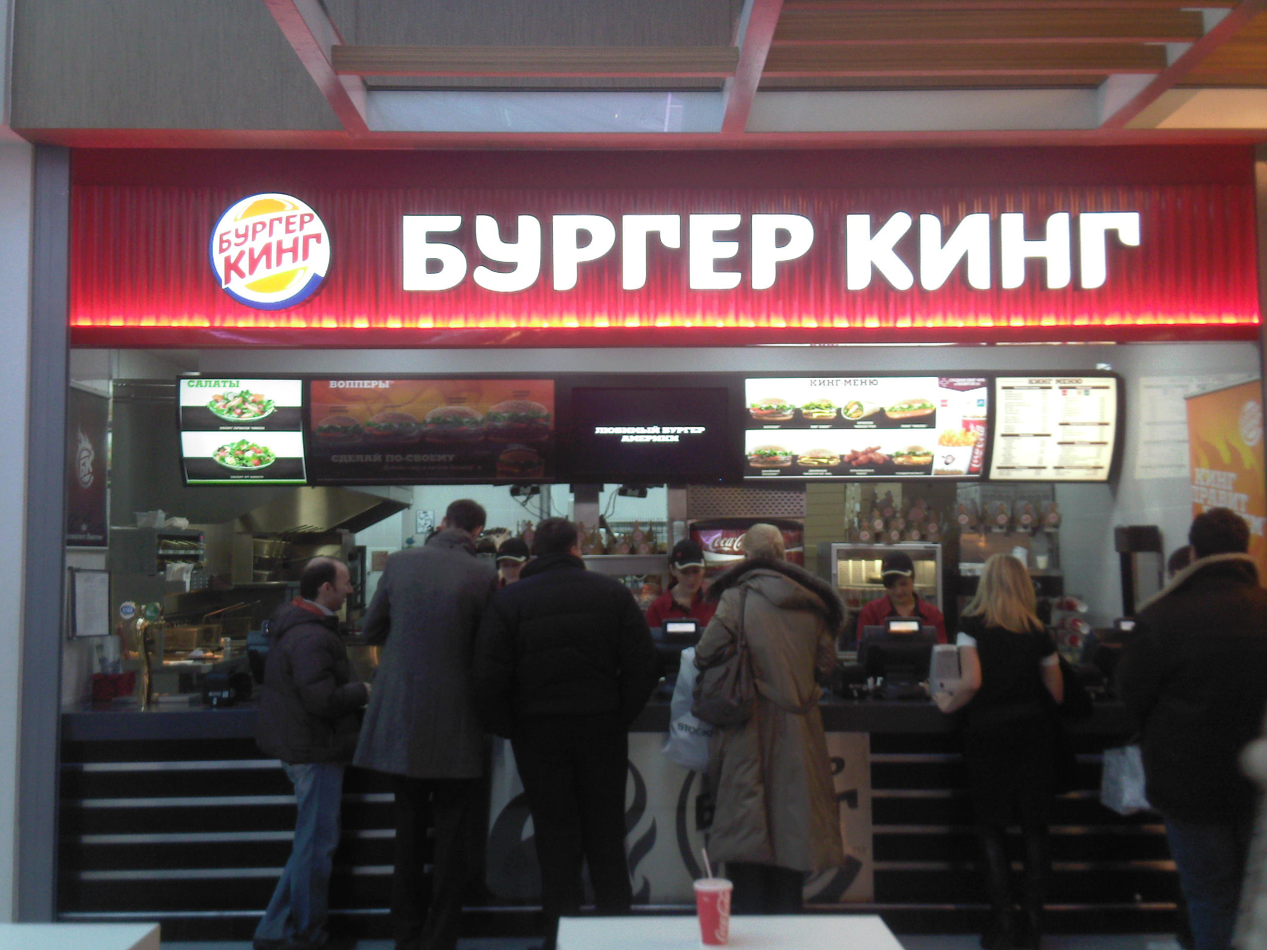 First BK restaurant in Moscow